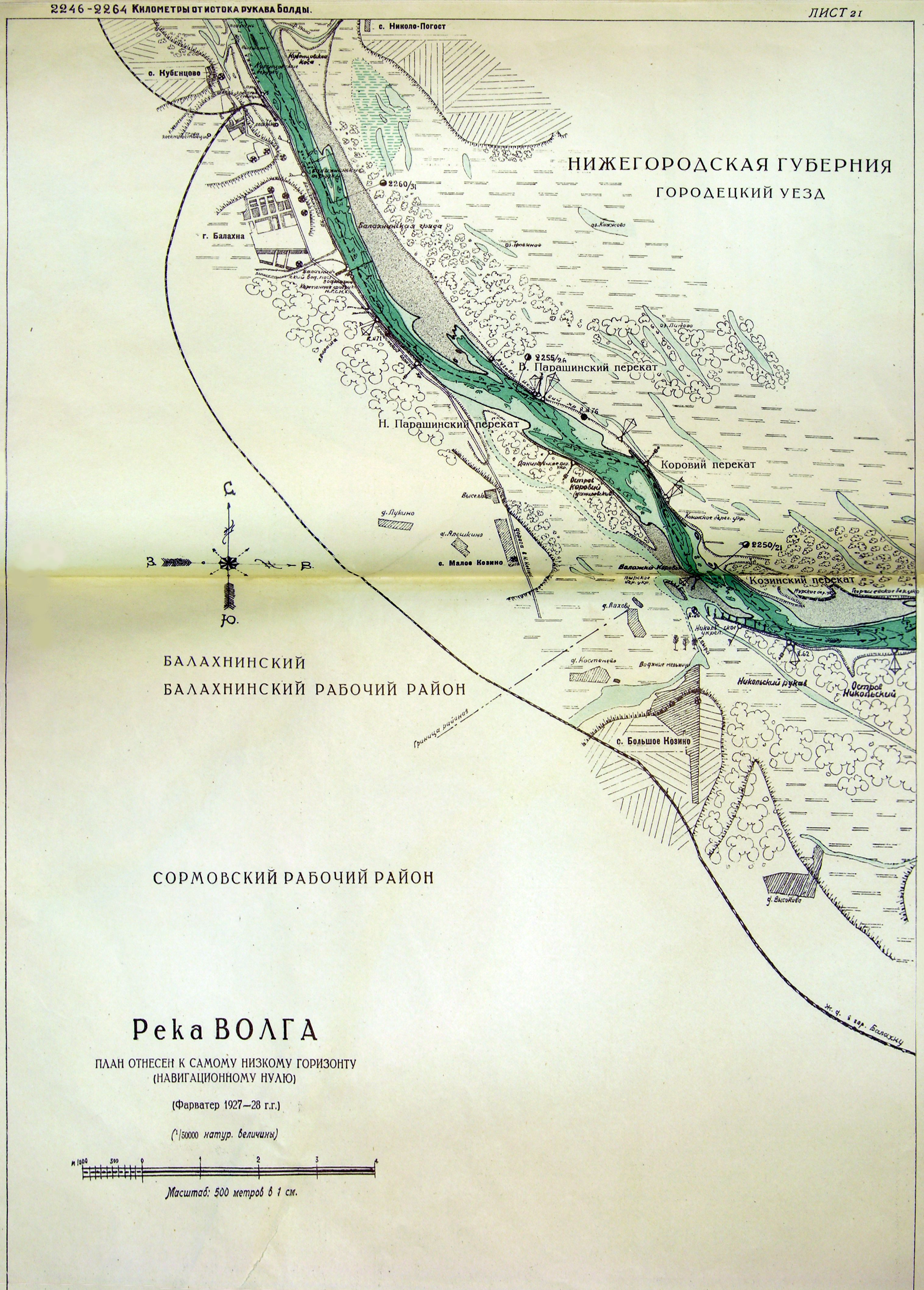 Pilot Map of the Volga River from Rybinsk to Nizhny Novgorod. Volga near Balakhna. 1929.